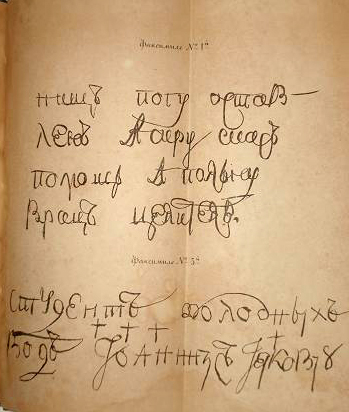 facsimile from «Life of Ivan Yakovlevich», by Ivan Pryzhov